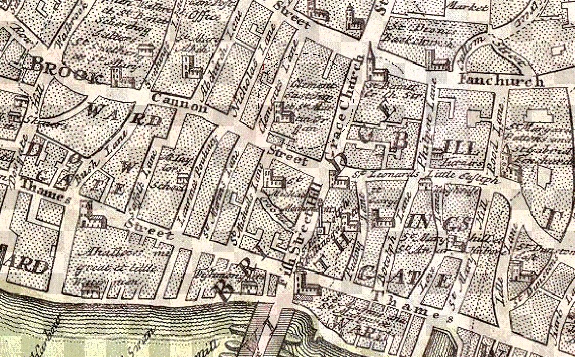 The parish of St. Clement Eastcheap, London, and its surrounding area as shown in Johann Homann's 'Ad norman prototypi Londinensis edita curis Homannianorum Heredum C.P.S.C.M', Homann Heirs: London (1736) Johann Baptist Homann (1663 - 1724). After Homann's death the business was carried on by his son until his death in 1730 whereupon the company was bequeathed to his heirs with the condition that the business continued to operate under the name 'Homann Heirs'.